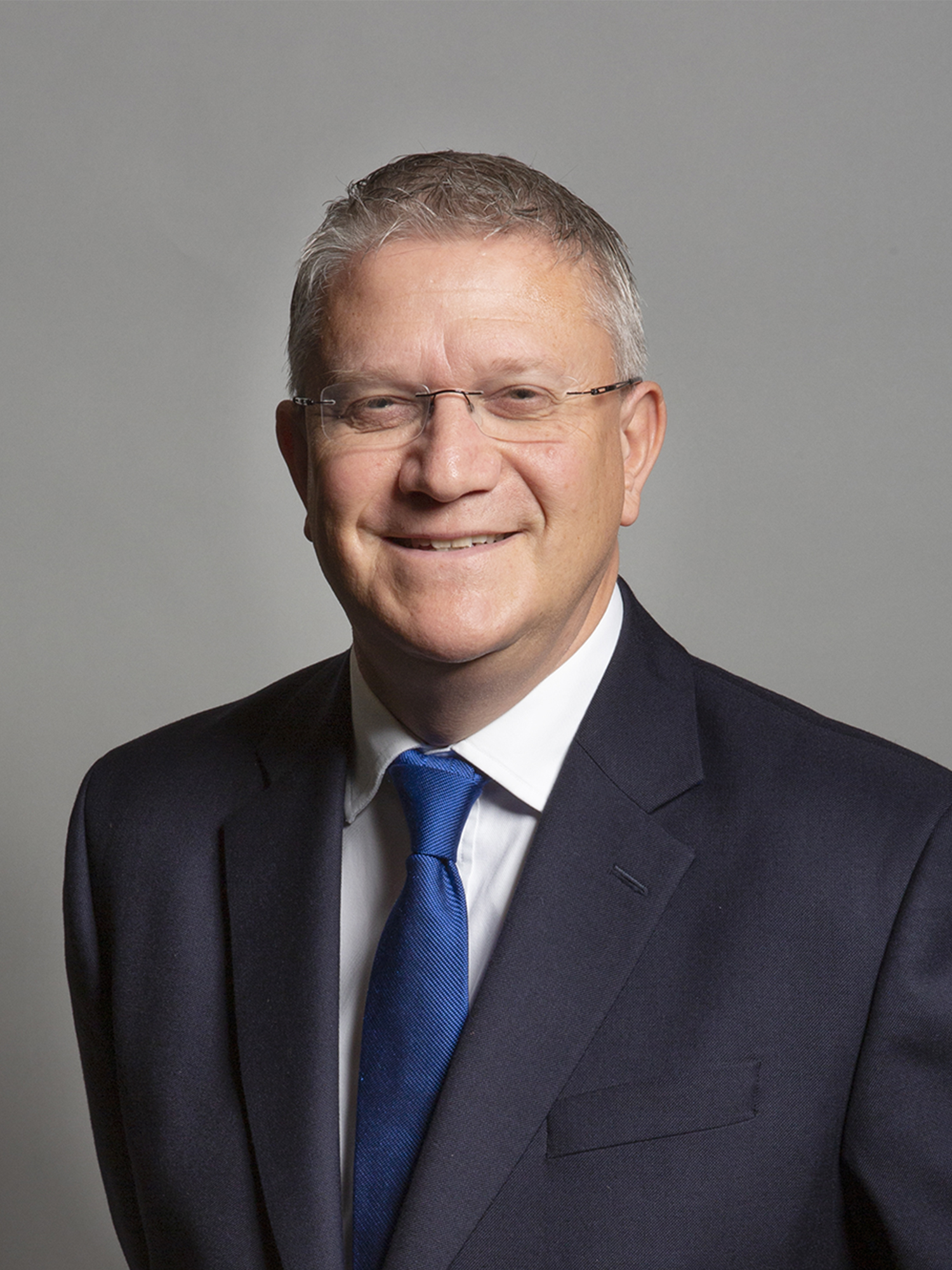 Official portrait of Andrew Rosindell MP 3×4 portrait of Andrew Rosindell